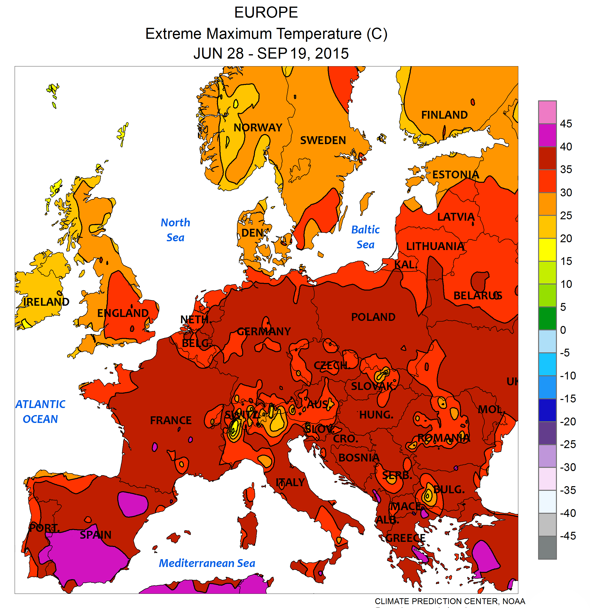 Europe: Extreme maximum temperature June 28 - September 19, 2015, computer generated colours, based on preliminary data